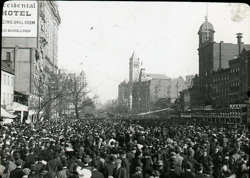 view of Pennsylvania Avenue during the 1913 Suffrage Parade